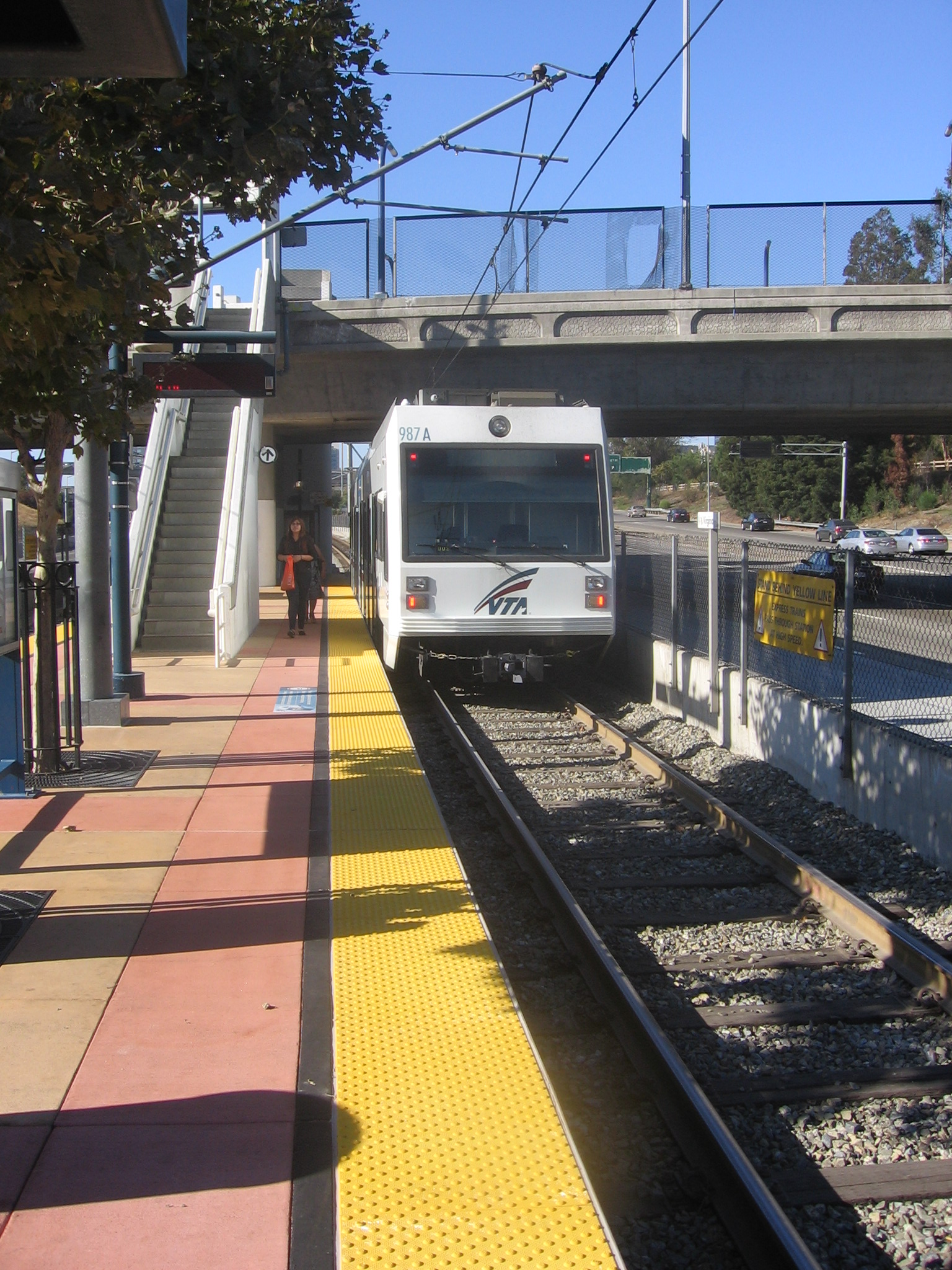 The Virginia (VTA) light rail station in San José, California, USA.